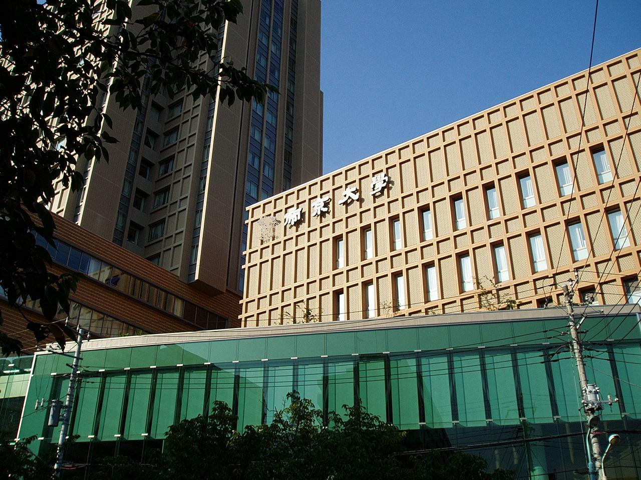 The headquarters office of Teikyo University. Located in Itabashi-ku, Tokyo. The emblem has been masked by the uploader.